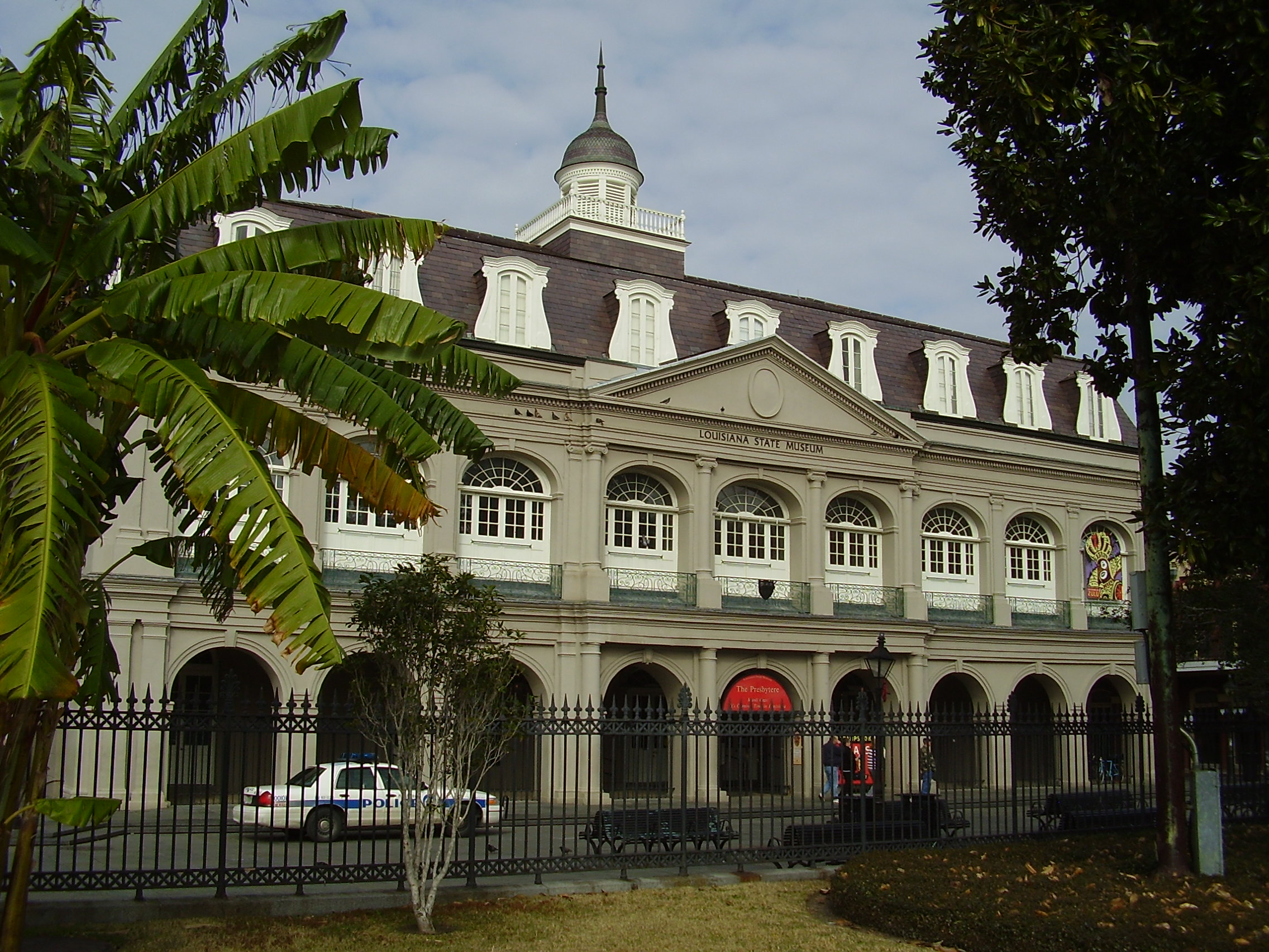 Louisiana State Museum Presbytere building, New Orleans